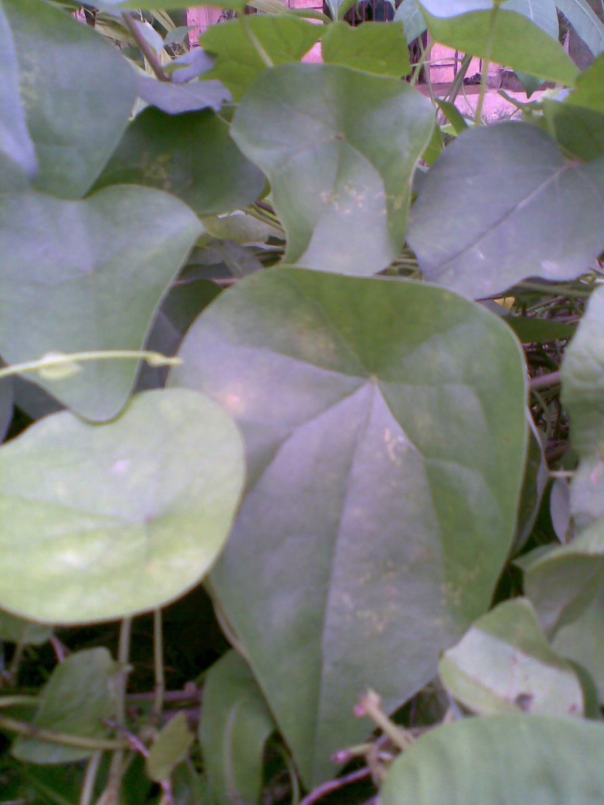 This photo of Cissampelos parreira was taken by Dr.Subhransu Sekhar Mishra ,Biotechayur Pvt. Ltd. Balasore,Orissa ,Indiaଓଡ଼ିଆ: ଏହି ଚିତ୍ରଟି ଡାକ୍ତର ଶୁଭ୍ରାଂଶୁ ଶେଖରଙ୍କ ଦ୍ଵାରା ଉତ୍ତୋଳିତ । ଏହା ଏକ ପାଠା ବୃକ୍ଷର ଚିତ୍ର ଅଟେ I